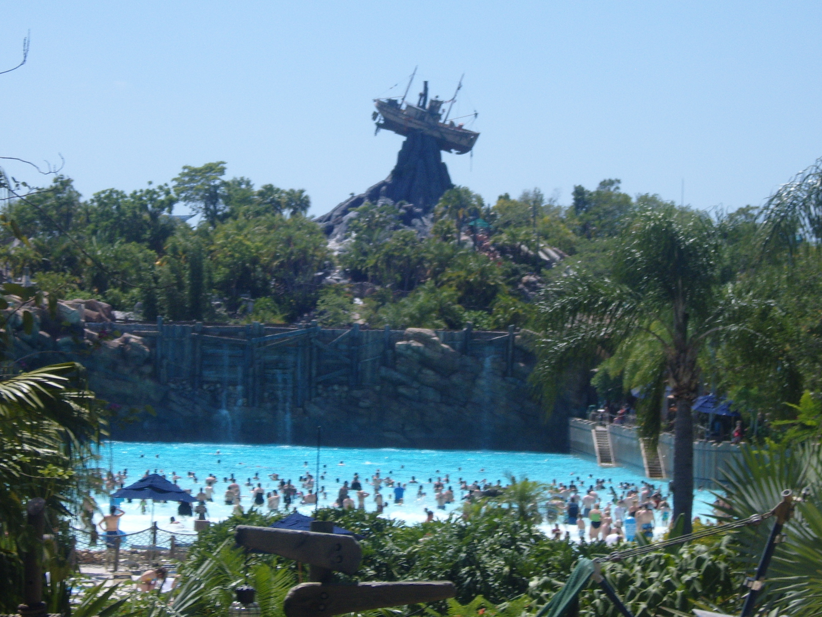 The Typhoon Lagoon Surf Pool in the Walt Disney World Resort park Typhoon Lagoon (Orlando)